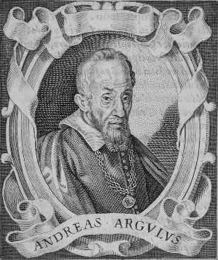 Andrea Argoli (1570–1657)